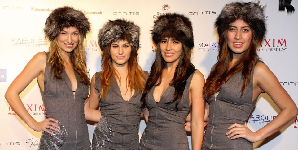 Maxim magazine celebrates 1st birthday at The Star, Sydney, Australia (cropped version, see below) Marquee Sydney helps Maxim celebrate first birthday... Last night at The Star popular men's magazine, Maxim Australia, celebrated its first birthday. If you didn't know already, Maxim is a lad's mag, and this issue is blessed with Australian sports model, Lauryn Eagle. Did we mention Lauren is a boxer, kick boxer, water skier and more! She's also one of Australia's most popular sports models these days. The magazine and is sponsors, advertisers, models and everyone else associated with it should be happy with tonight's turn out, and any print magazine out of Australia that is still in business does have something to celebrate. Joining Lauryn were other names and celebs including Brittany Bloomer, Grant Dwyer, Rochelle Fox, Nacho Pop, Brittany and Anthony Cairns, Annalise Braakensiek. Well done to everyone involved in tonight's birthday success. Wrap Up... The Star's tag line is 'There will be stories', and its a sure bet Star will keep living up to that if tonight was any indication. A casino matched with Maxim Australia, a media pack, models and more - that's going to make news. Websites The Star Echo Entertainment Maxim Australia Music News Australia Eva Rinaldi Photography